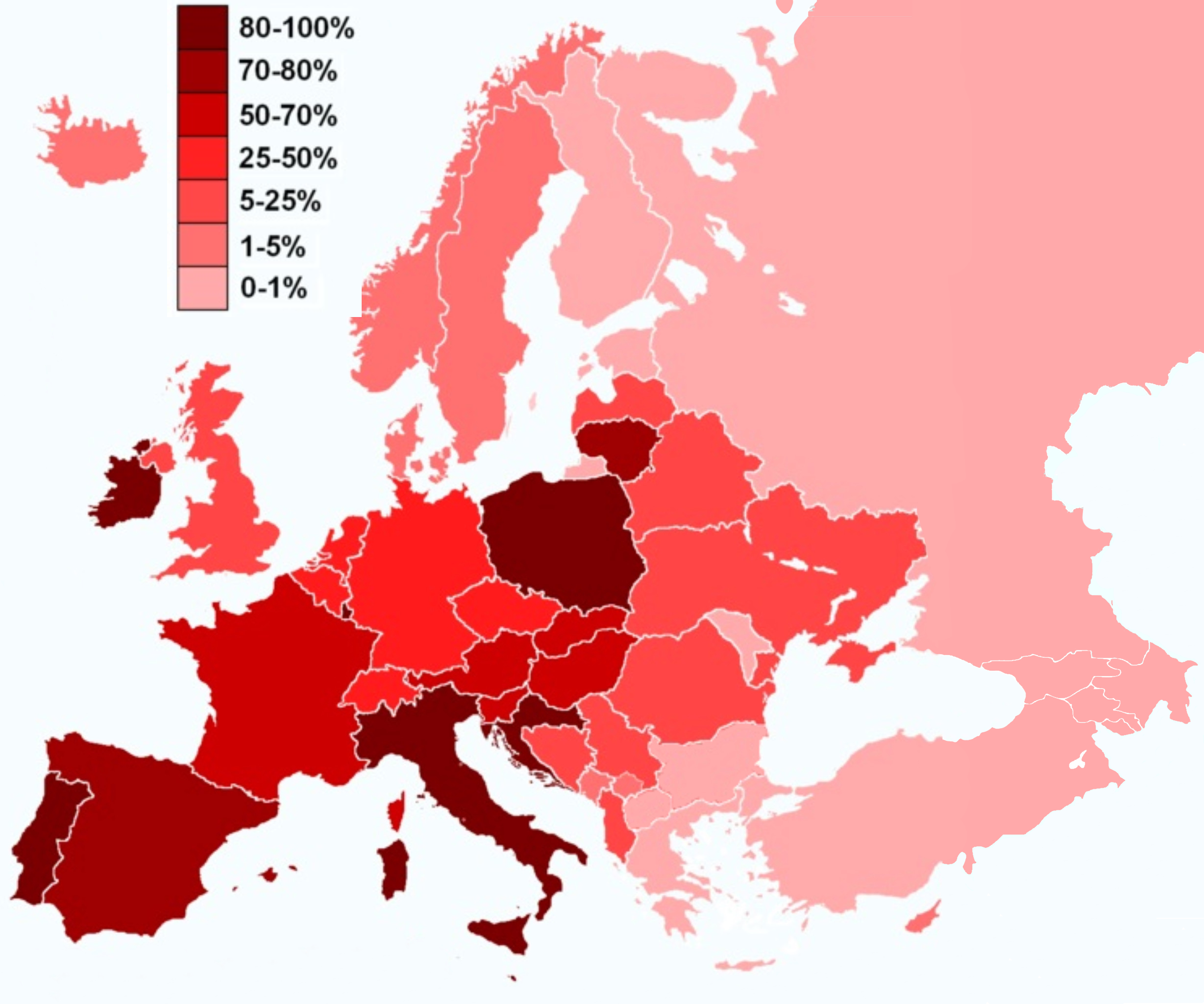 Percentage of Catholics by Country